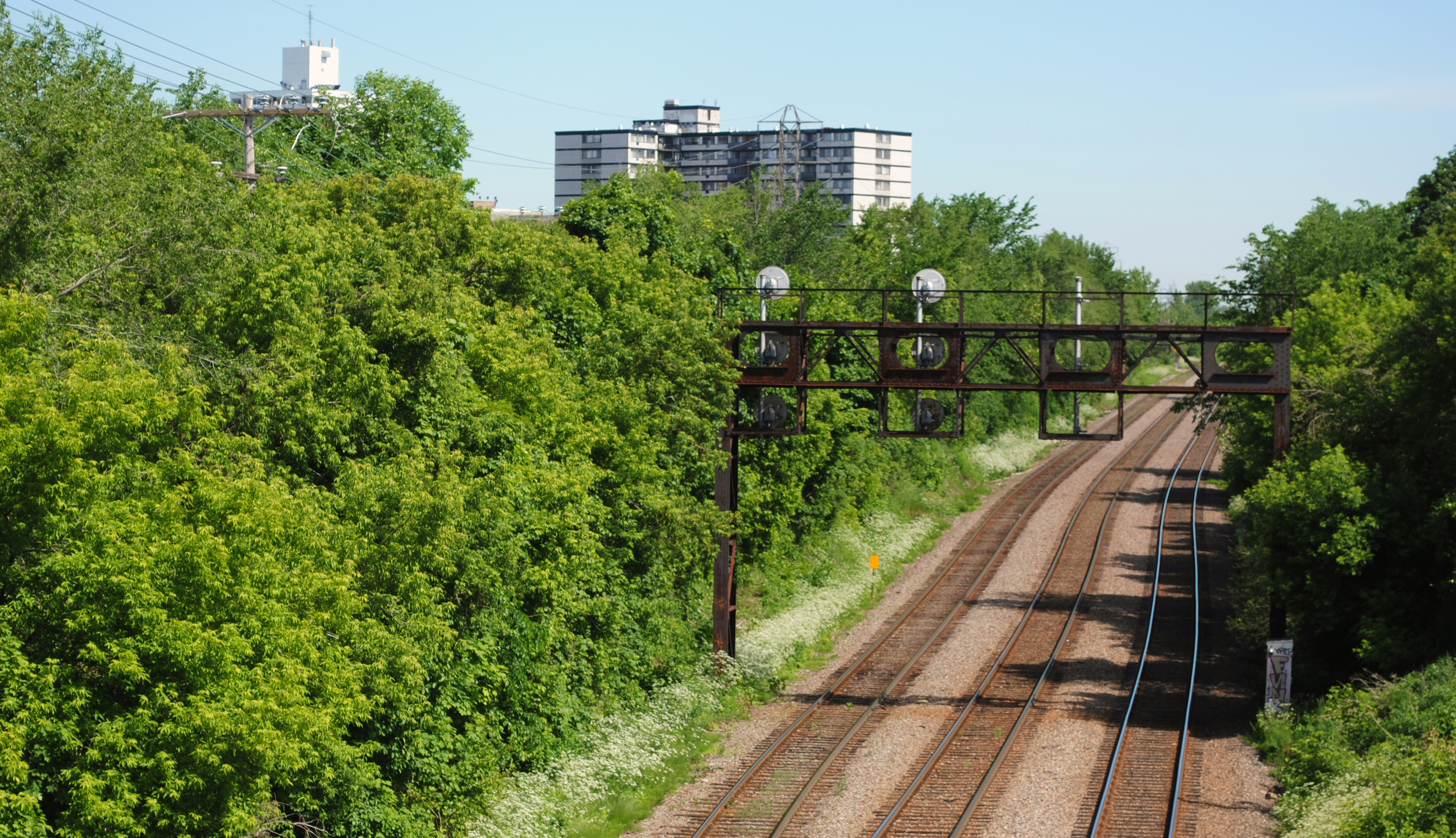 CP railroad on the northern boundary of Montreal West